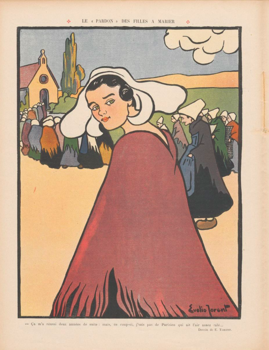 Le Pardon des filles à marier. [title] Ça m'a réussi deux années de suite : mais ce coup-ci, j'vois pas de Parisien qui m'ont l'air assez calé... [down]. Reproduction of a cartoon in Le Rire, issue 400.